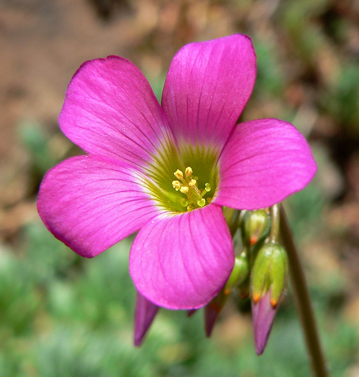 Oxalis magnifica at the University of California Botanical Garden, Berkeley, California